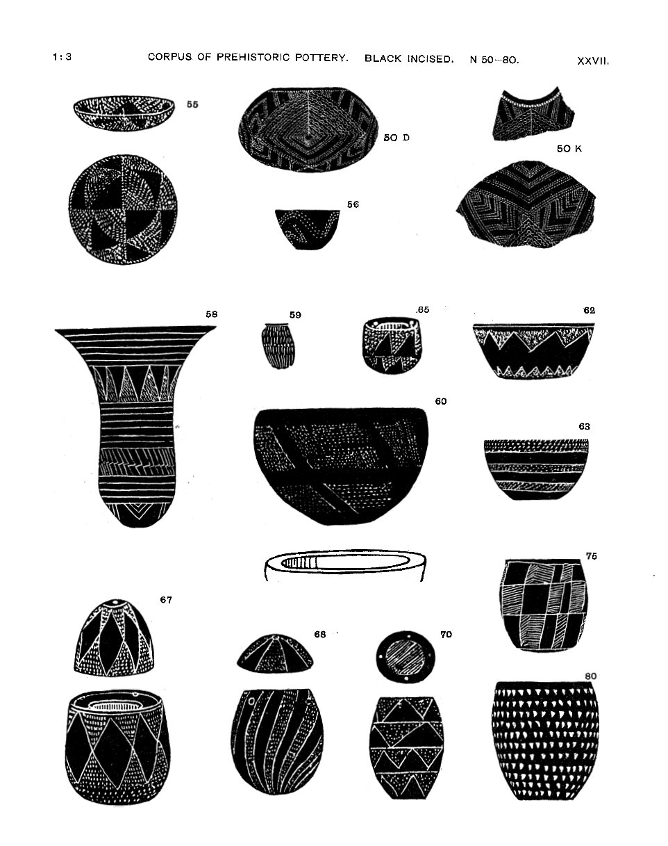 Black Incised ware, Naqada pottery